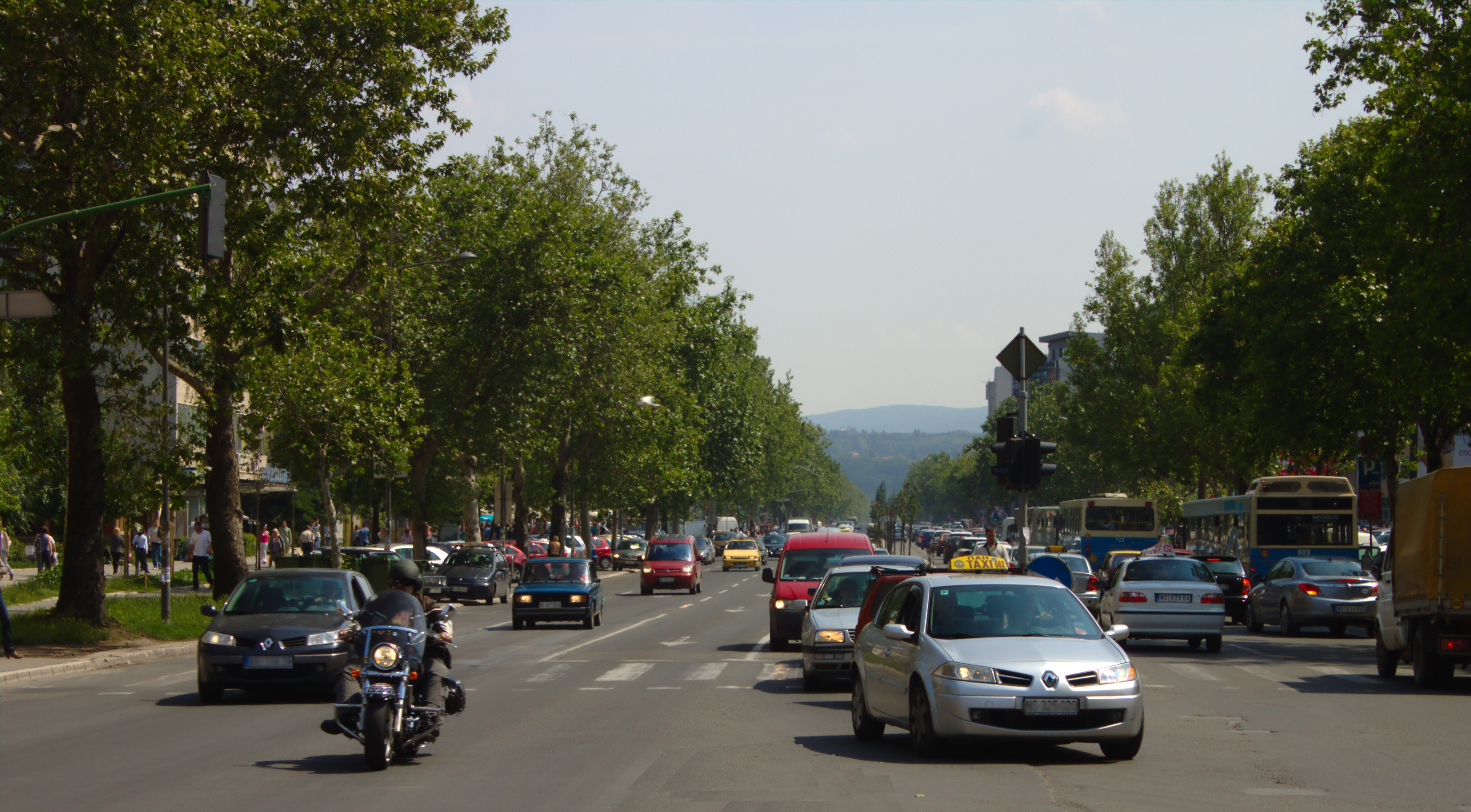 A rush hour at Liberation Boulevard (Bulevar Oslobođenja) in Novi Sad, Serbia